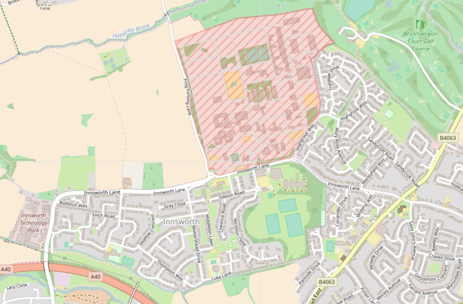 Innsworth